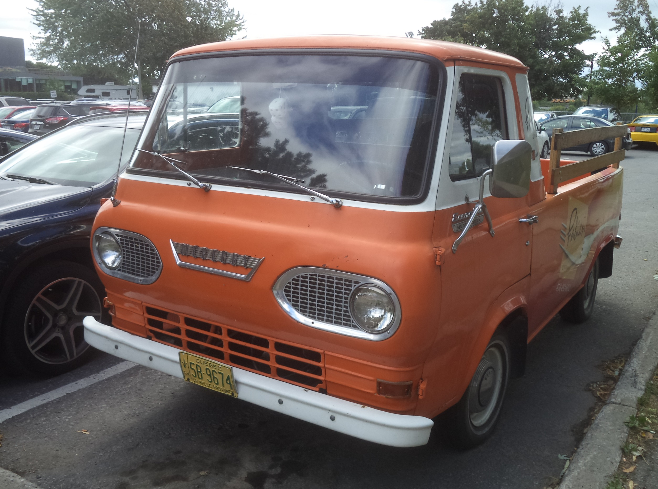 1964 Mercury Econoline pickup truck. Sold in Canada in Lincoln-Mercury dealer network alongside Ford Econoline counterpart.